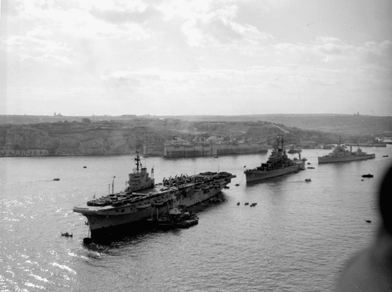 Views of the Royal Navy anchorage at Grand Harbour, Malta, circa in 1951. Vessels at anchor include the light fleet carrier HMS Warrior (R31) (foreground), U.S. Navy heavy cruiser USS Des Moines (CA-134) (middle) and the light cruiser HMS Gambia (48) (background).